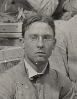 Description: Lober among a group of eleven fellow sculpture students. (cropped out based on number which identified this person as Lober.) Identification on verso (handwritten): about 1911 or 12. Published in: Archives of American Art Journal v. 12, no. 2, p. 23. Lober, Georg John, 1892-1961 Creator/Photographer: Unidentified photographer Medium: Black and white photographic print Dimensions: 10 cm x 13 cm Date: c. 1911 Persistent URL: [1] Repository: Archives of American Art Native nameArchives of American ArtLocationWashington, D.C.Coordinates38° 53′ 52″ N, 77° 01′ 22″ W Established1954Website control : Q2860568 VIAF: 151134814 ISNI: 0000 0001 2185 0758 LCCN: n79065944 NLA: 35007823 GND: 1085306631 WorldCat Collection: Georg John Lober papers, [ca. 1915-1970] Accession number: aaa_lobegeor_4957